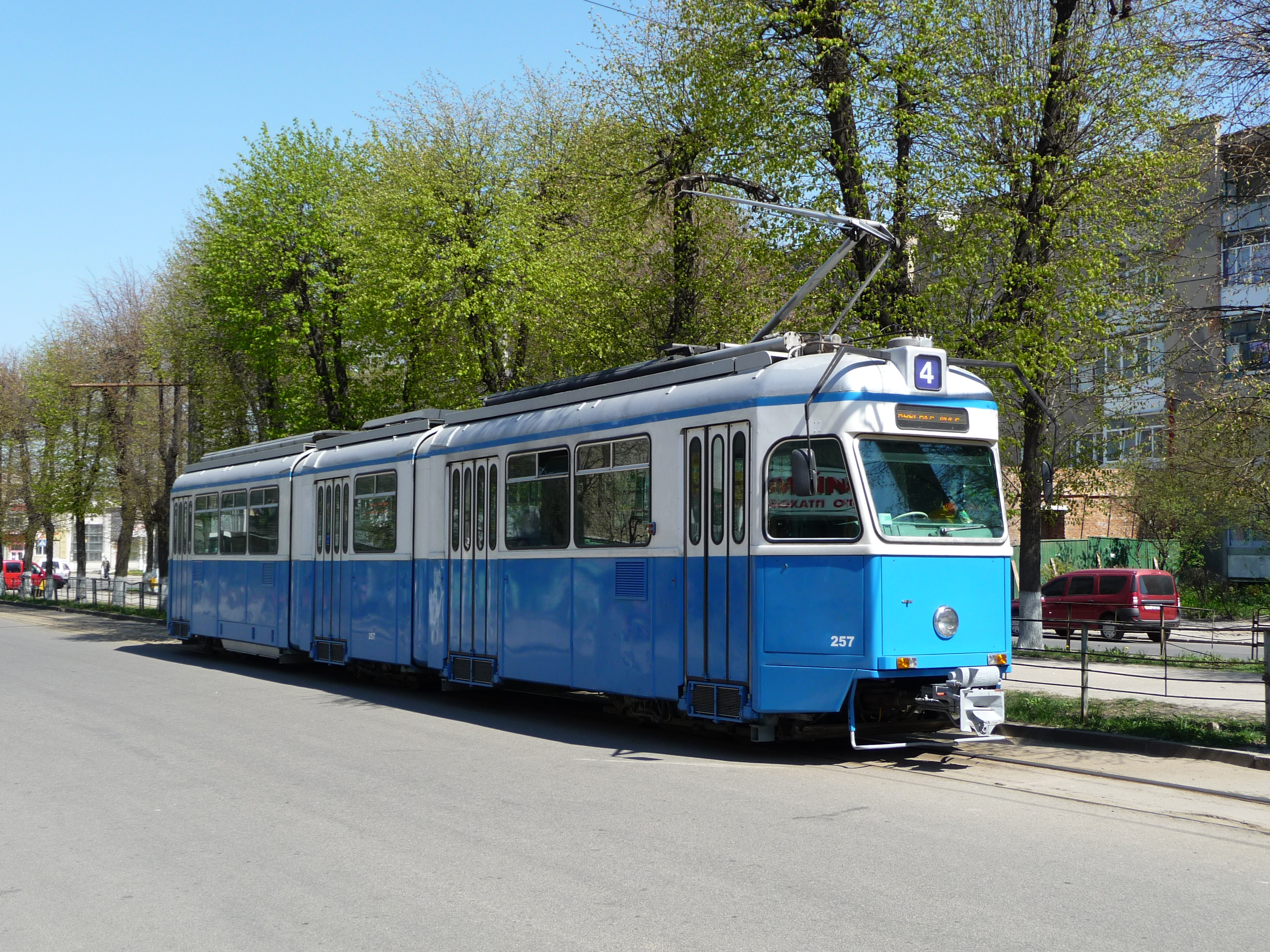 Old tram VBZ Be 4/6 «Mirage». Has been made in 1966. It was used in the Zürich city, Switzerland. After 2007 this tram used as municipal transport in the Vinnitsa city, Ukraine.